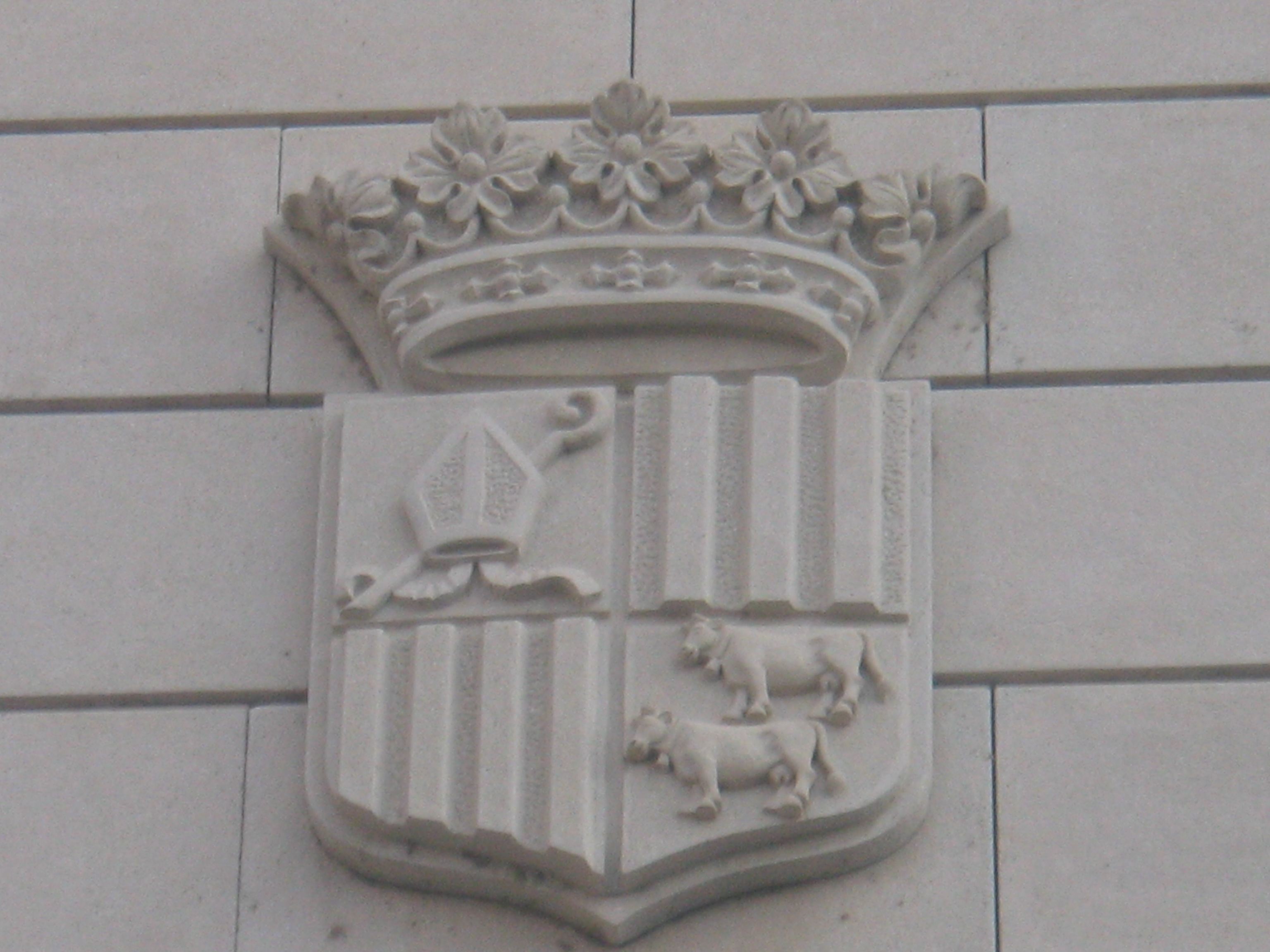 Coat of arms of Andorra on the Bishop of Urgell's Palace, La Seu d'Urgell, Spain